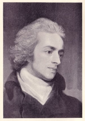 William Beckford